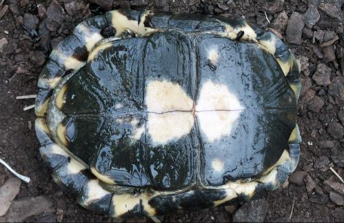 Cuora zhoui Male by Torsten Blanck